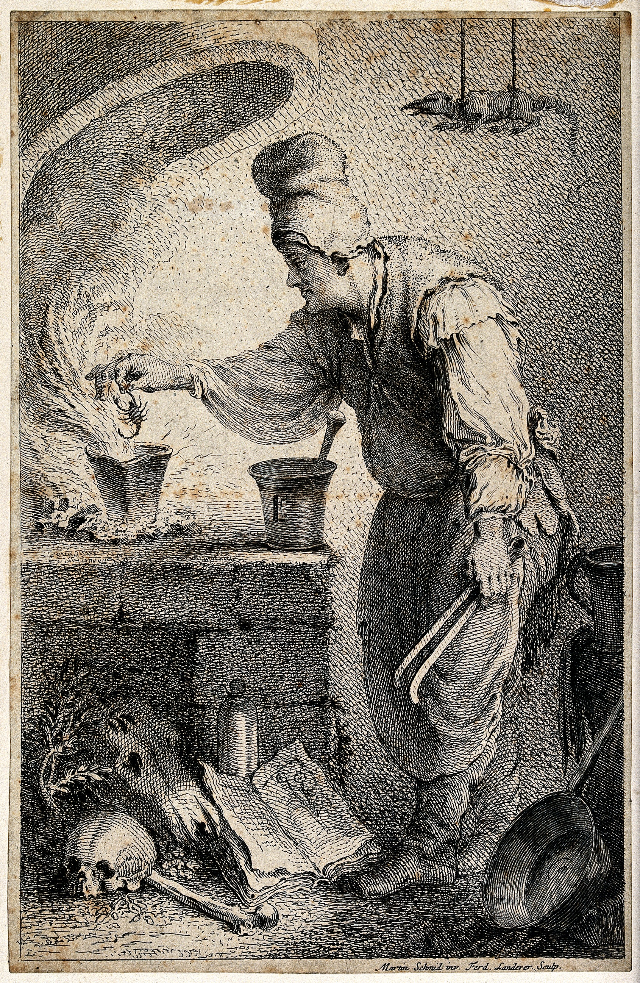 A witch placing a scorpion into a pot in order to make a potion. Etching by F. Landerer after M. Schmidt. Iconographic Collections Keywords: Magic; Martin Joachim Schmidt; Witchcraft; Ferdinand Landerer; landerer; schmidt